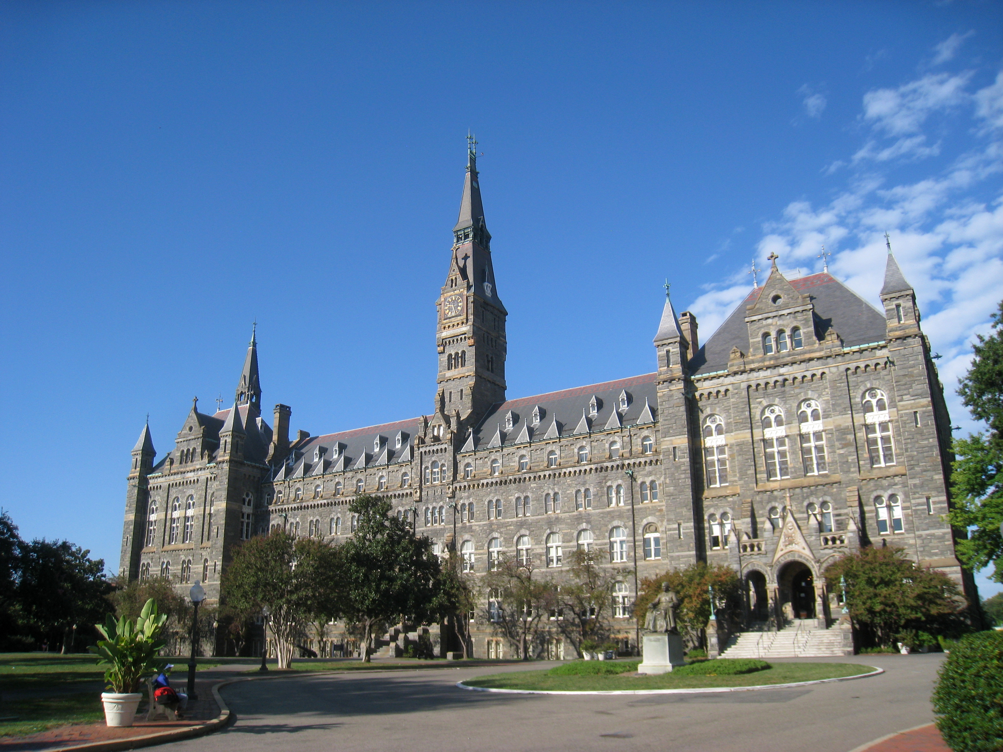 Georgetown University, Washington, DC, USA. Healy Hall.